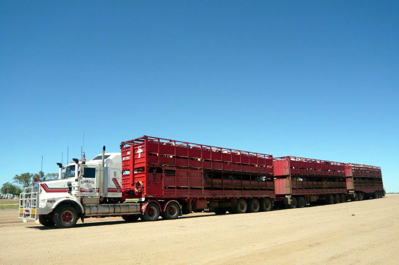 Queensland - Road Train